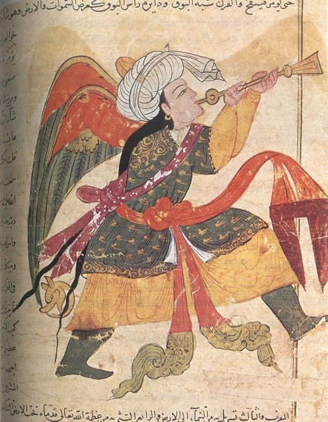 Islamic drawing of an angel blowing a horn, probably Israfel